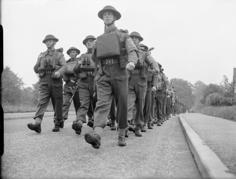 The British Army in the United Kingdom 1939-45 Men of 1st Battalion, Scots Guards, marching along St Pauls Cray Road near Chislehurst in Kent, 15 June 1942.